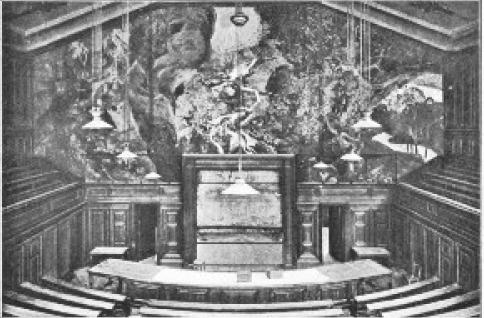 Amphitheatre of chimistry of the faculty of sciences of the university of Paris at the Sorbonne